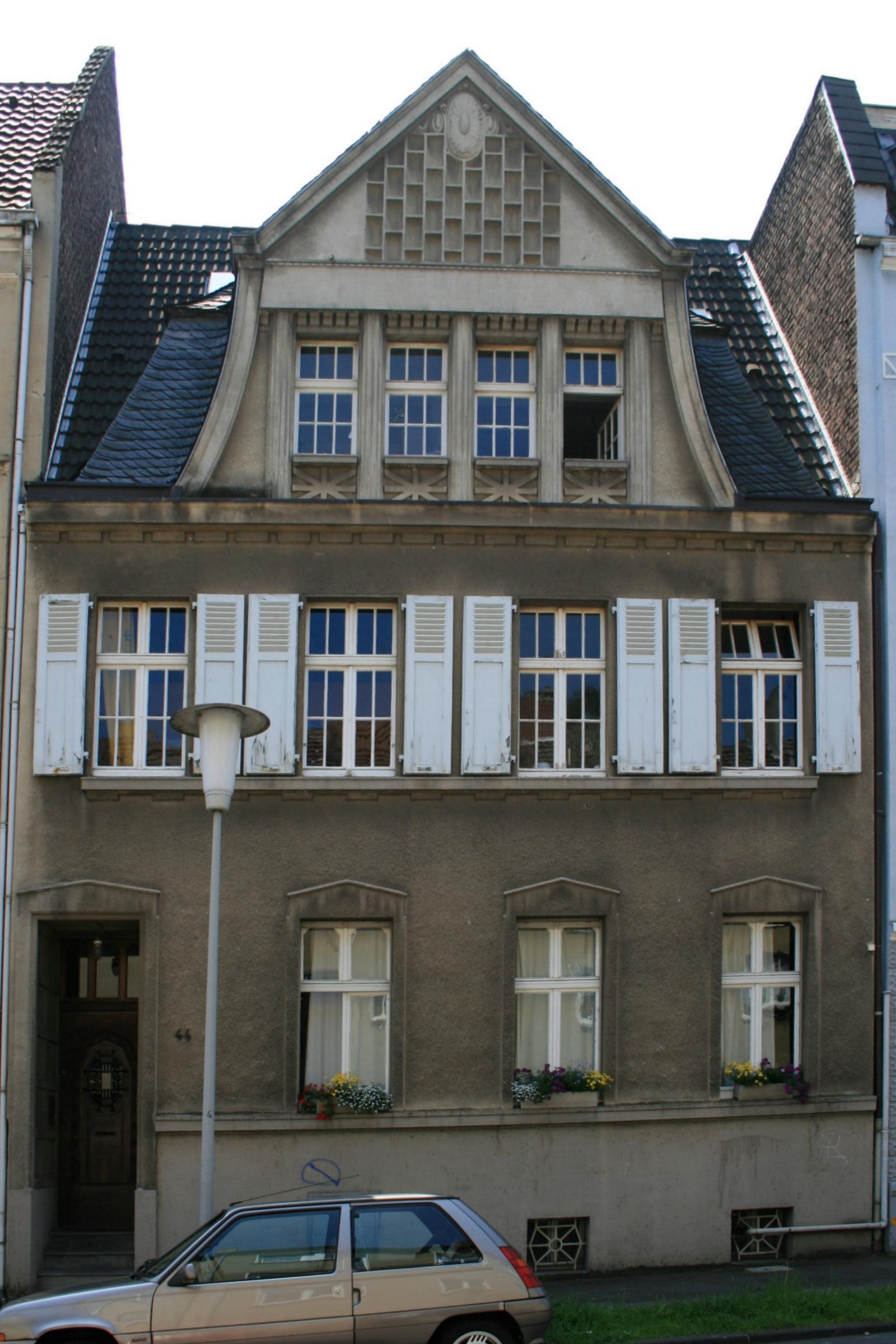 Cultural heritage monument No. C 005 in Mönchengladbach